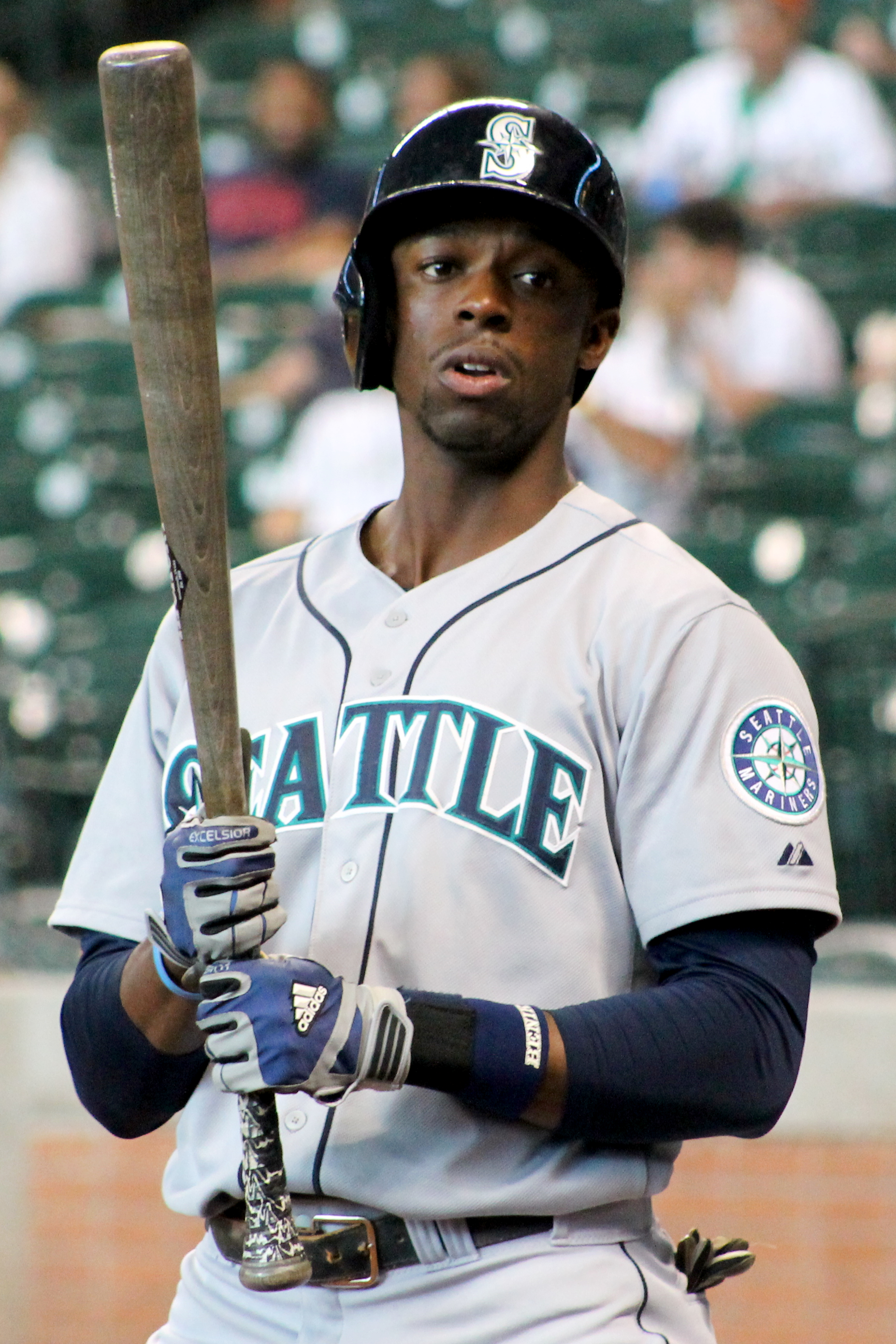 Major League Baseball player James Jones at Minute Maid Park in July 2014.